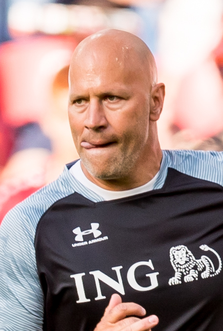 Miscellaneous during Champions for Charity at BayArena, Leverkusen, Nordrhein-Westfalen, Germany on 2019-07-21, Photo: Sven Mandel